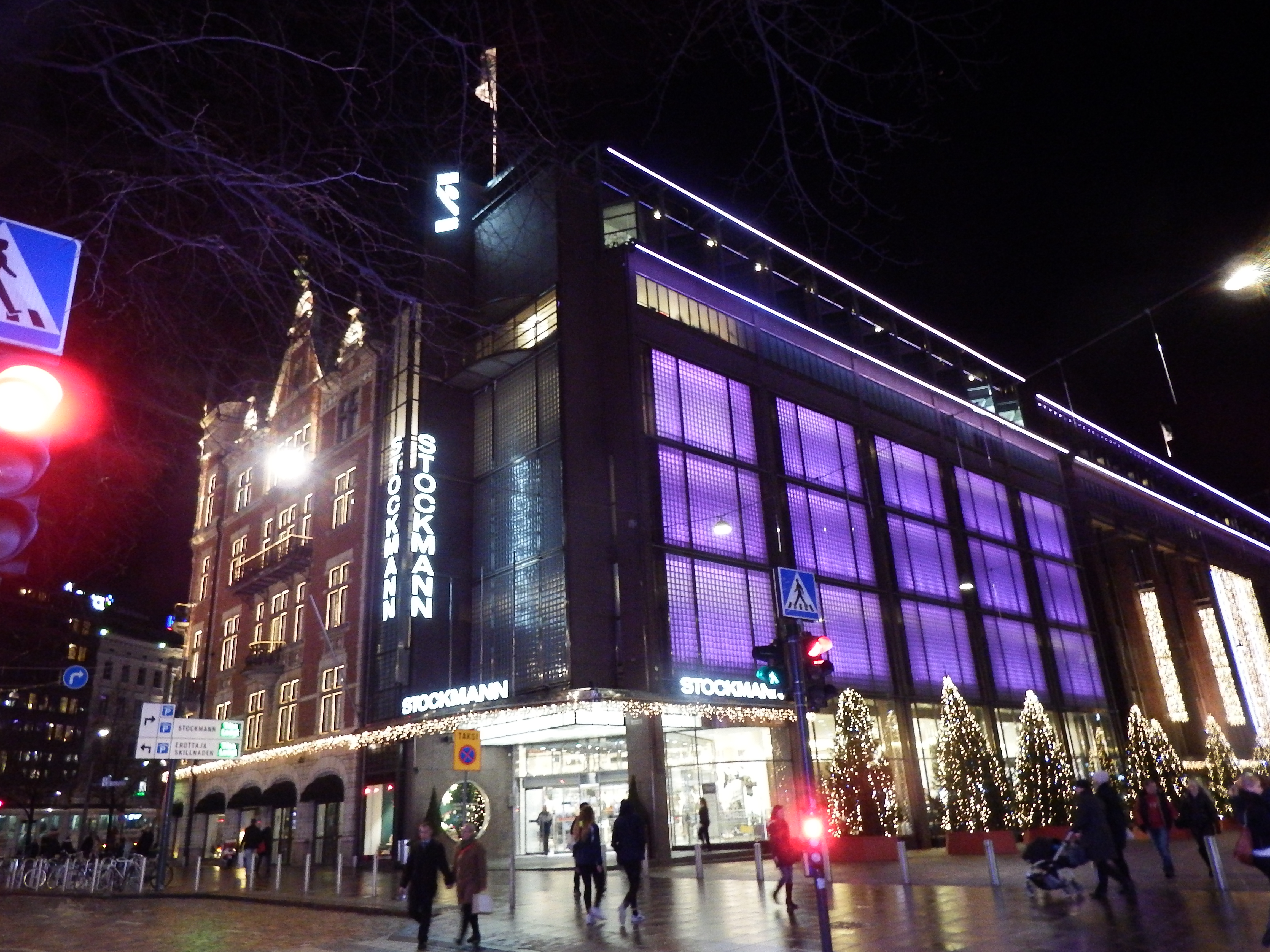 Stockmann Helsinki Christmas 2015